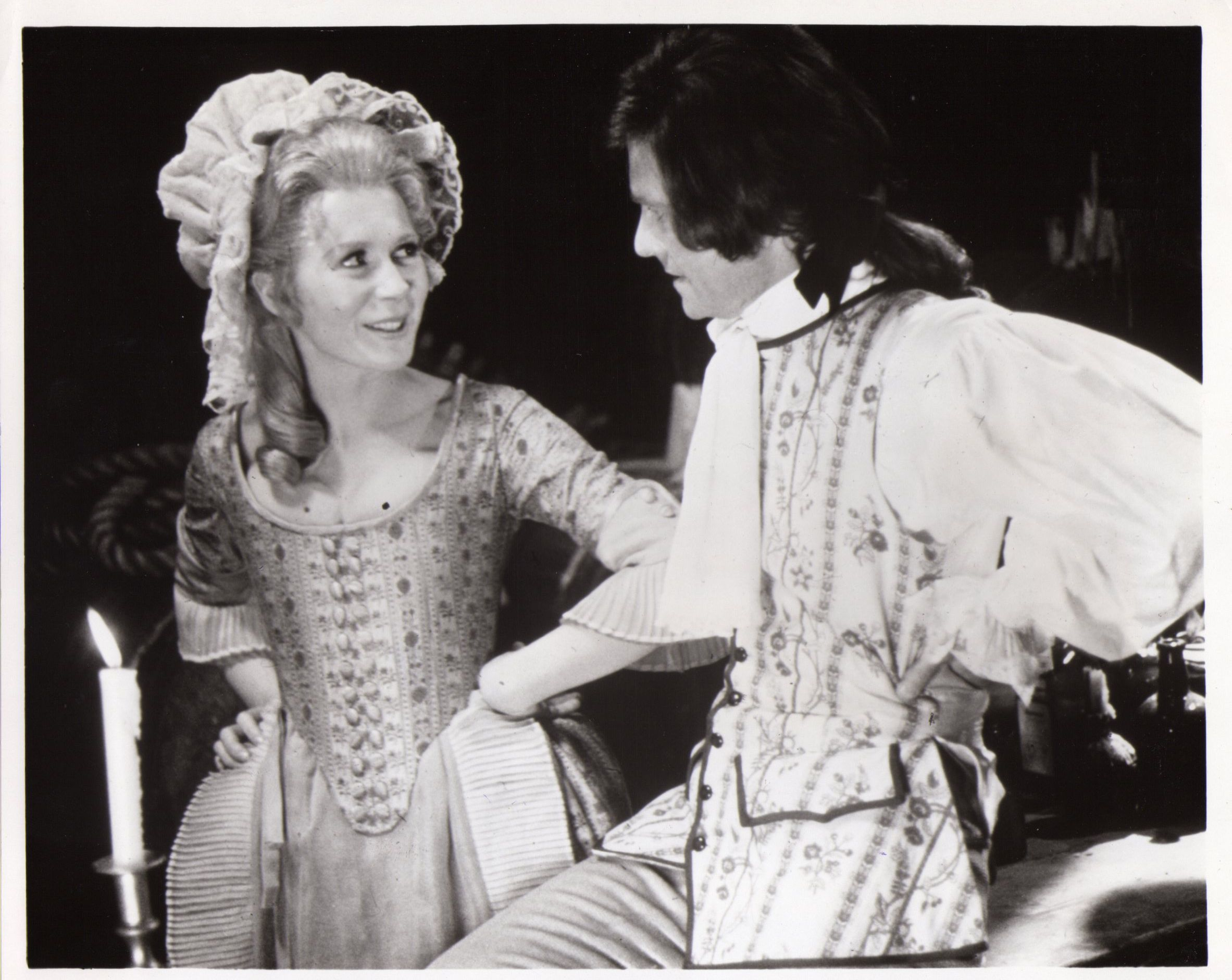 A copyright free publicity photo marked "FOR USE AT WILL" from the 1971 BBC production of She Stoops to Conquer - shown in the U.S. in 1976. Actors shown are Juliet Mills and Tom Courtenay. Also uploaded is the reverse of the photo File:"She Stoops to Conquer J.Mills and T.Courtenay Rear".jpg, which shows the "for use at will" marking.